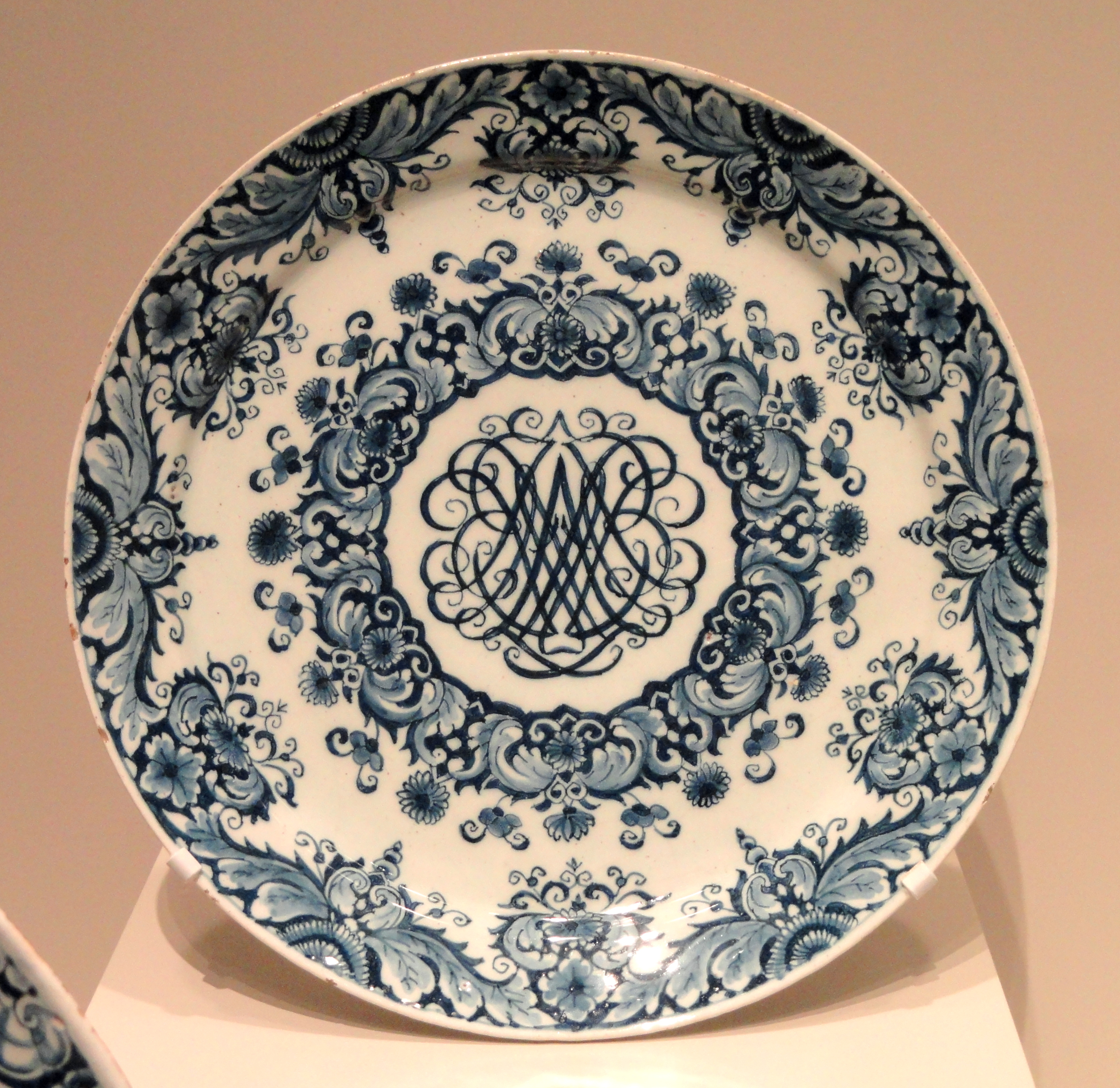 Exhibit in the Art Institute of Chicago, Chicago, Illinois, USA. This artwork is in the public domain because the artist died more than 70 years ago.